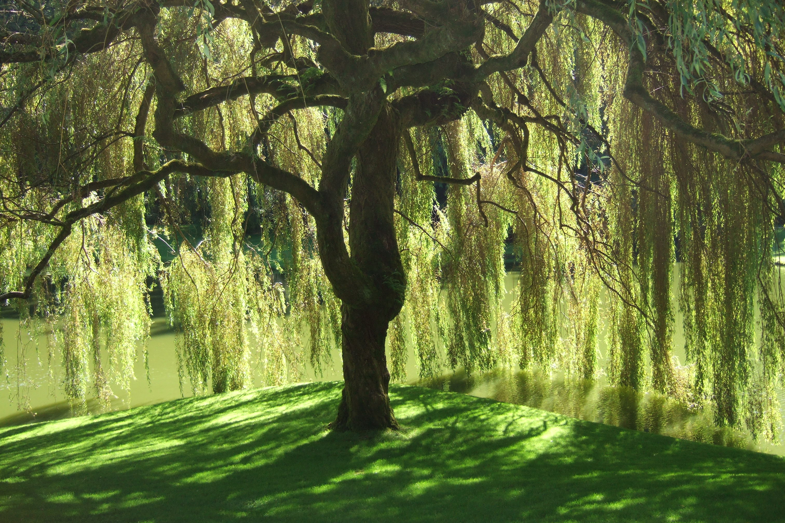 Taken by me during a visit to the Bloedel Reserve, Bainbridge, Washington. Willow in the Japanese Garden.